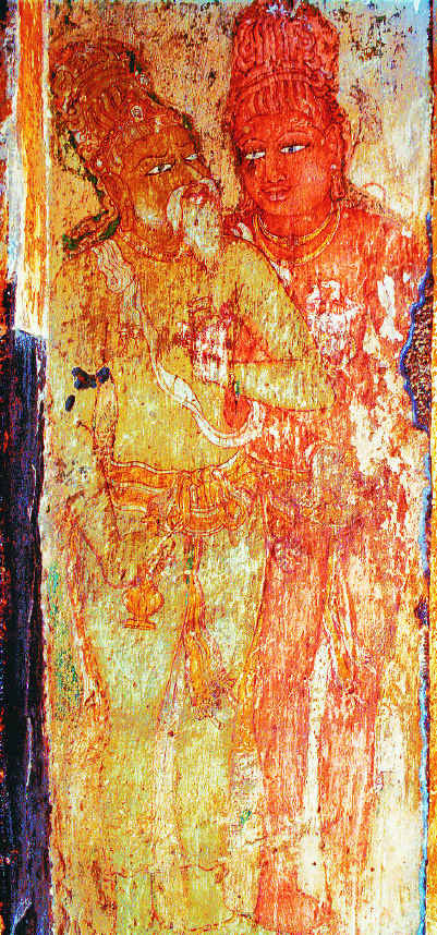 King Rajaraja Chola and guru (teacher) Karuvur Thevar, Brihadeesvara temple, Tamil Nadu, 11th century. This is the earliest royal portrait in Indian painting. In keeping with ancient traditions, the guru is given importance and the king is shown standing behind him. This may not be an exact rendering of the king's features, rather a stylised representation.